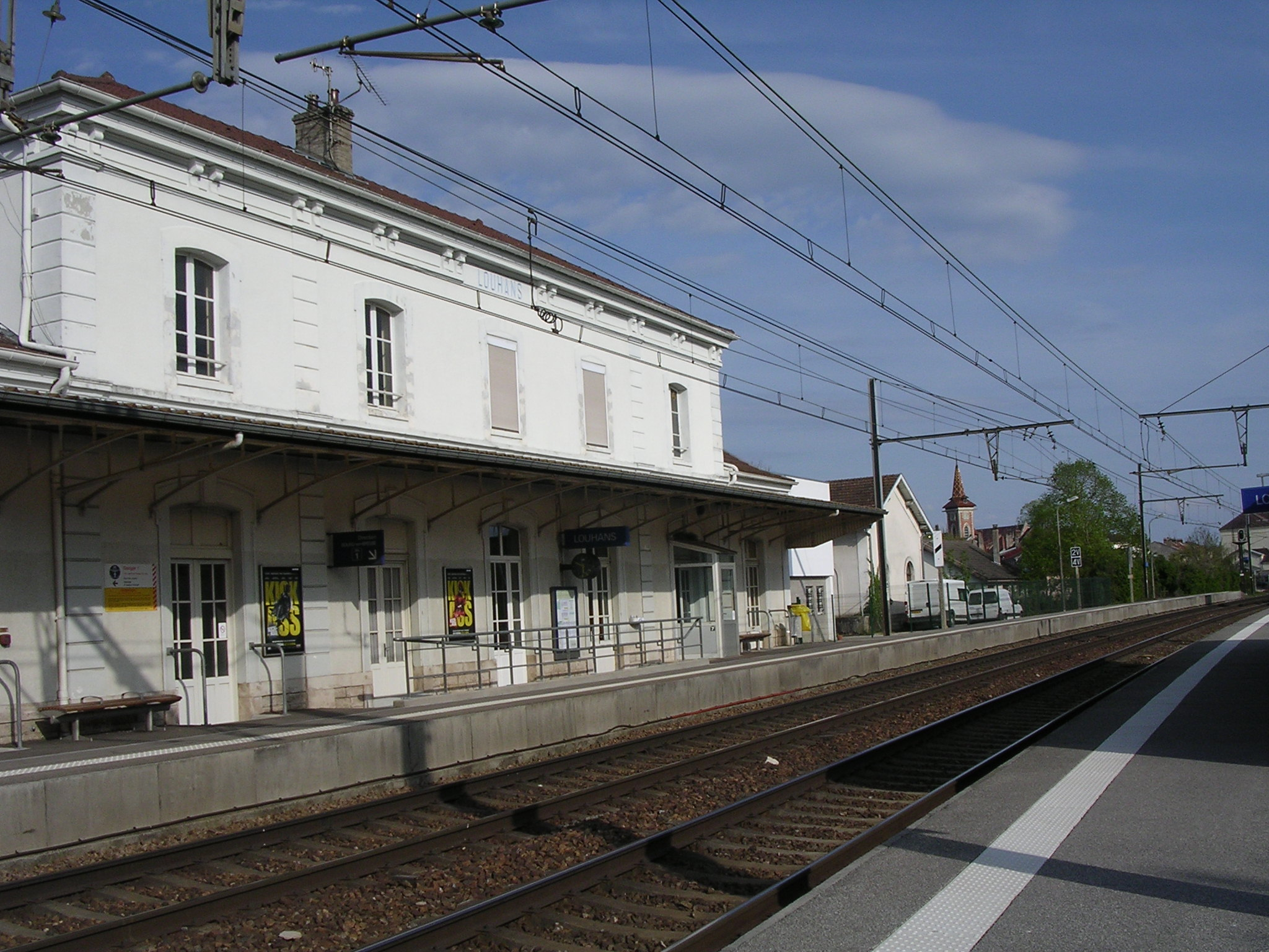 Louhans : Saône et Loire France